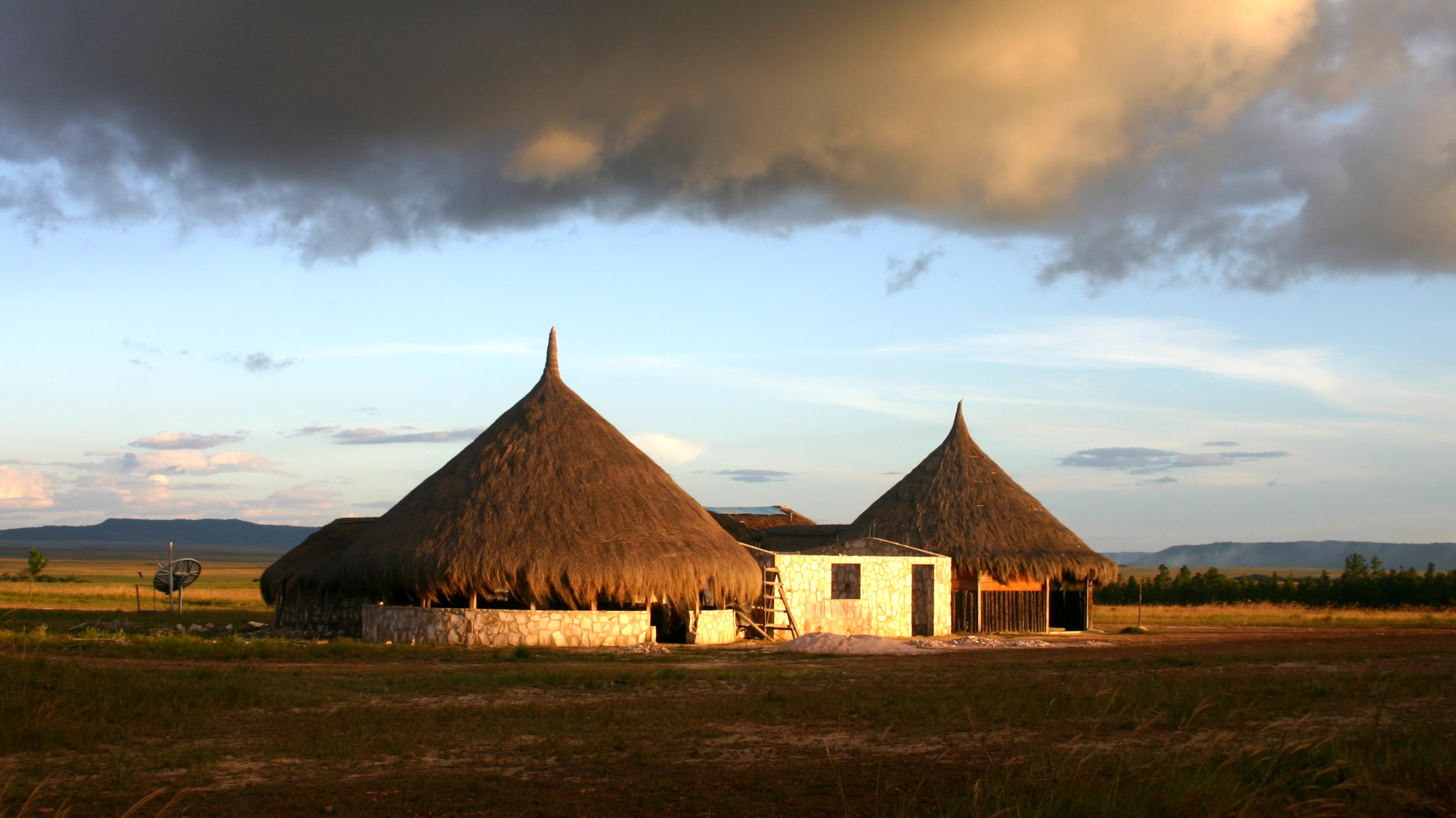 Small shop next to the road to Aponwao Fall in Gran Sabana National Park in Venezuela